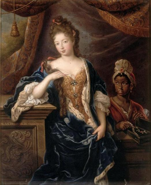 Louise Hippolyte, Princess of Monaco (1697-1731) while Duchess of Valentinois she is accompanied by a slave and was later the Princess of Monaco in her own right.